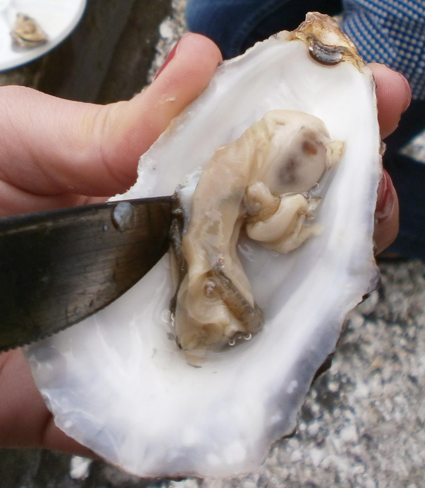 European oyster from Cancale.